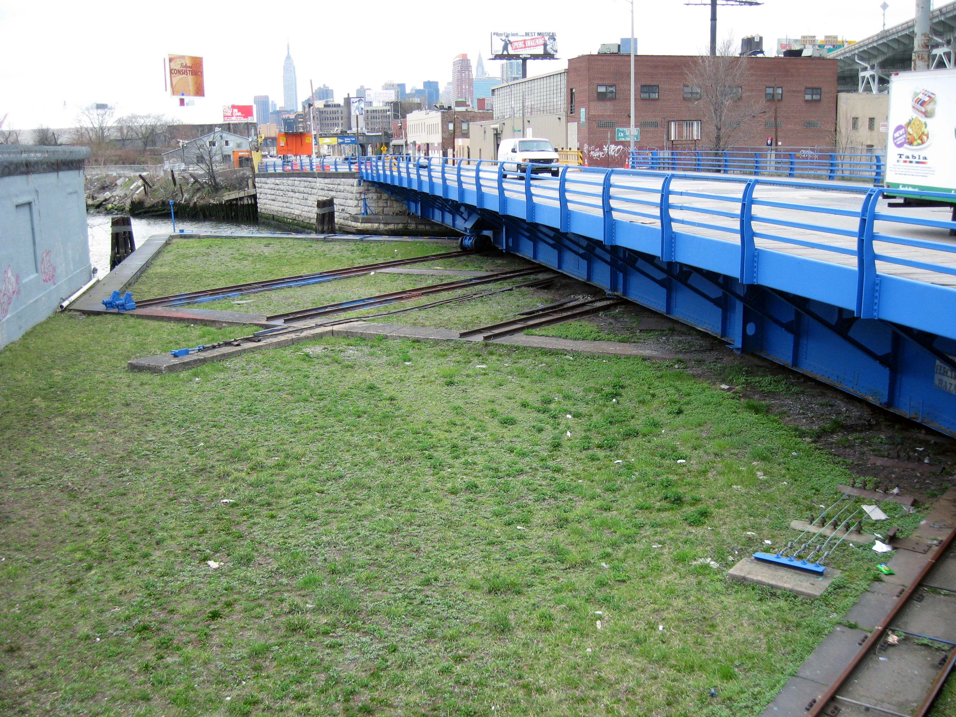 Borden Avenue Bridge over Dutch Kills by Edward Abraham Byrne. I took this photo early on a cloudy afternoon of early spring looking west from the south side.